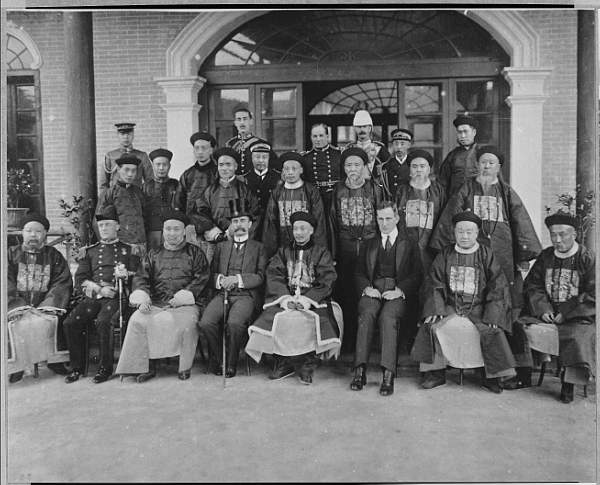 Chinese and British officials at Guangzhou on 24 March 1911